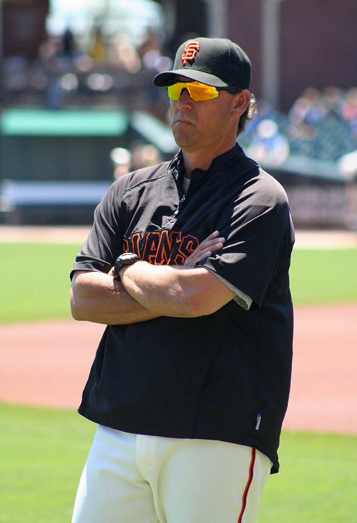 San Francisco Giants Vs. New York Mets Game 6-4-08.